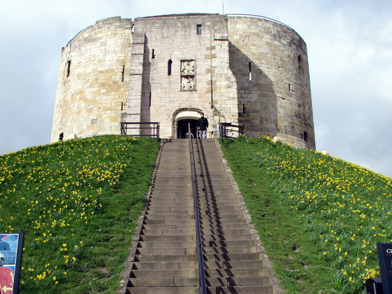 Clifford's Tower in York